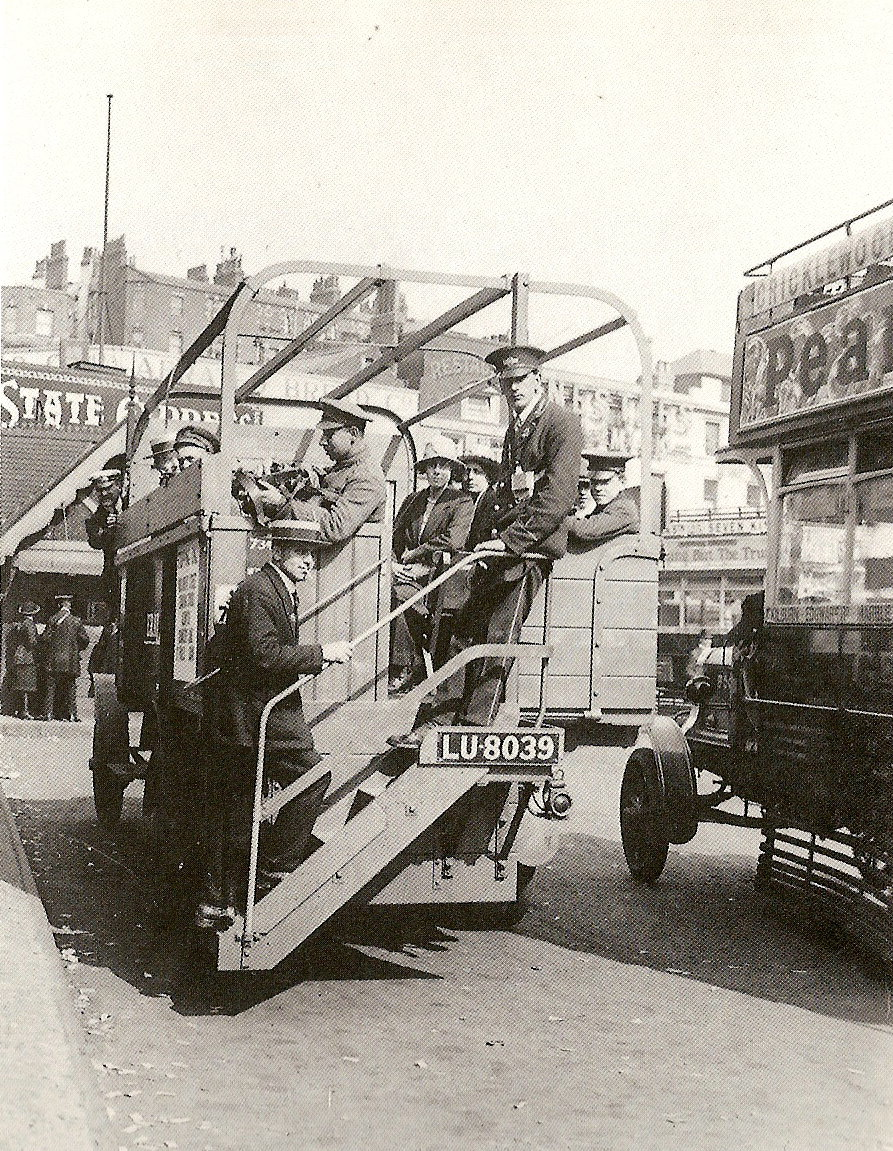 The use of London's buses on the continent during the First World War created a shortage of buses in London. The use of lorrys converted into buses was a temporary solution to this shortage. The frame visible in this picture could support a tarpaulin cover in bad weather. These Lorry-buses were used from 2nd of June 1919 to the 13th January 1920.